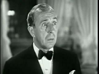 Movie screenshot of Charles Butterworth from Second Chorus